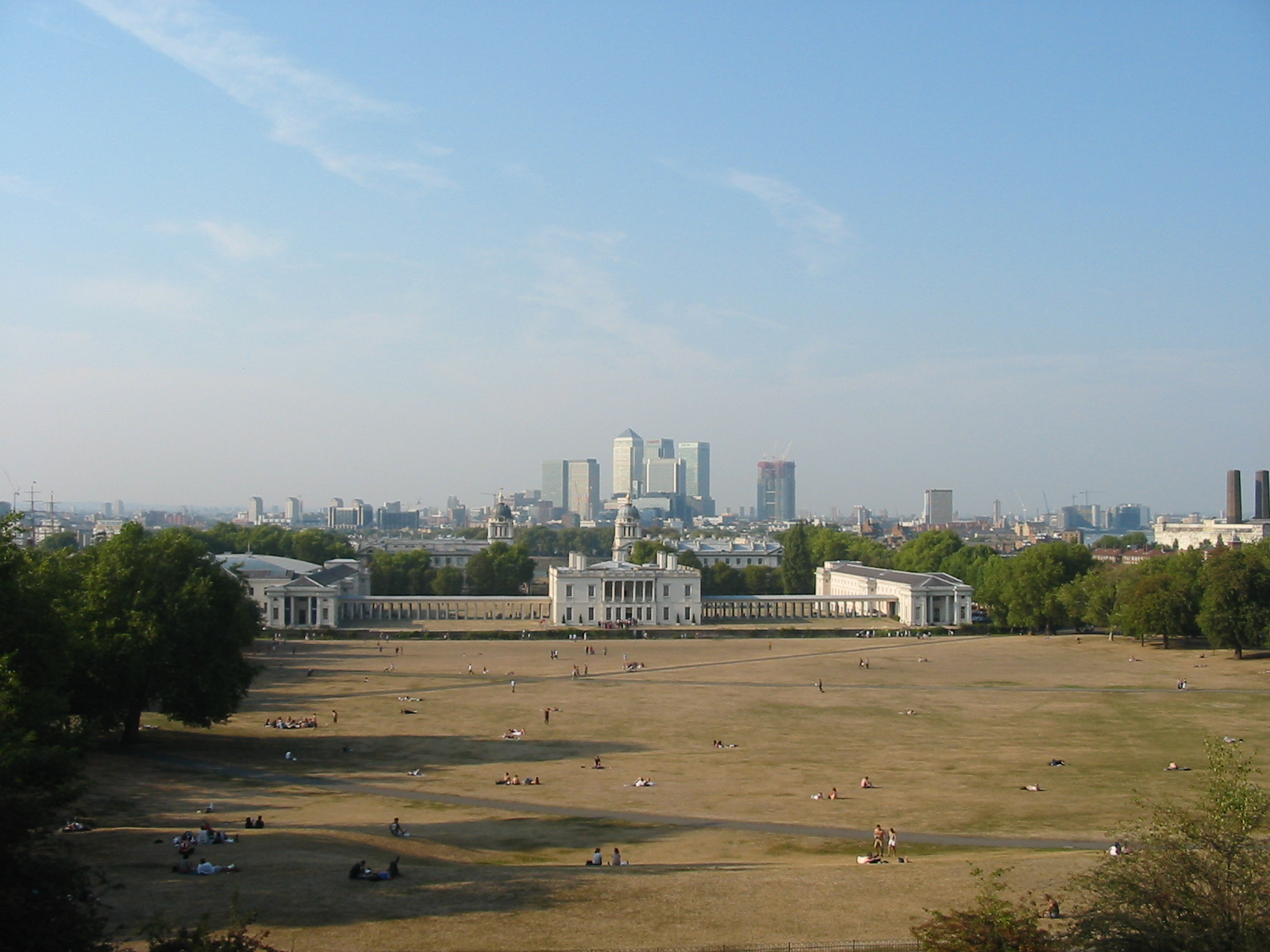 Canary Wharf from Greenwhich Observatory